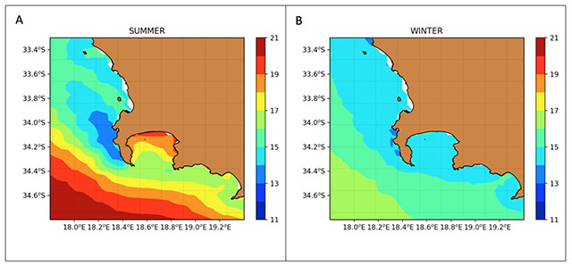 Se a surface temperature charts for False Baty and surrounds in winter and summer, from Pfaff et al. (2019) A synthesis of three decades of socio-ecological change in False Bay, South Africa: setting the scene for multidisciplinary research and management